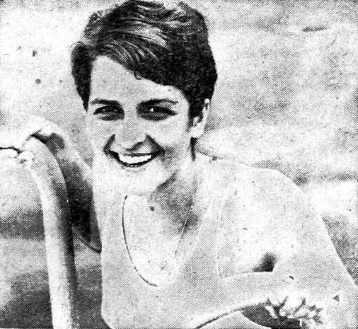 Zdenka Gašparač (1949